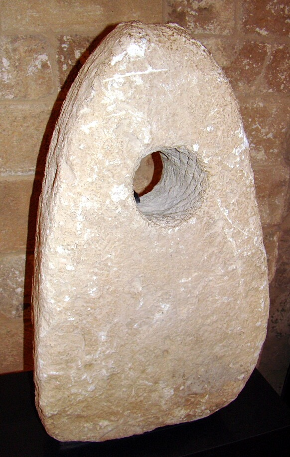 Anchor founded in Byblos